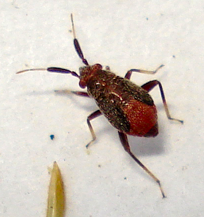 Atractotomus mali Final instar On: Grass Location: Lincoln City Site: Backies field